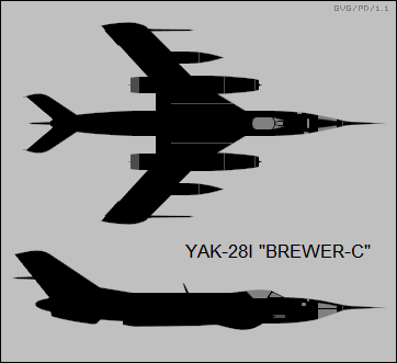 Plan-view silhouettes of the Yakovlev Yak-28I